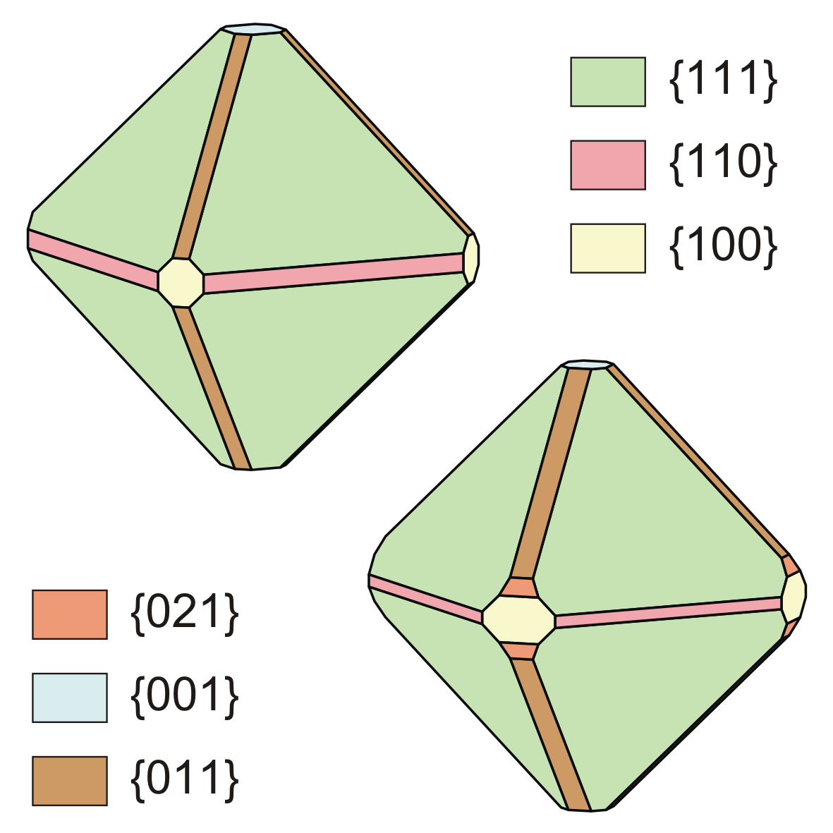 Drawings of stottite crystals; reference: H. Strunz et al. (1959), Neues Jahrbuch Mineralogie Monatshefte Vol. 1959, page 86